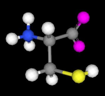 Cysteine-Ball and stick 3D molecular graphic created by program Ghemical